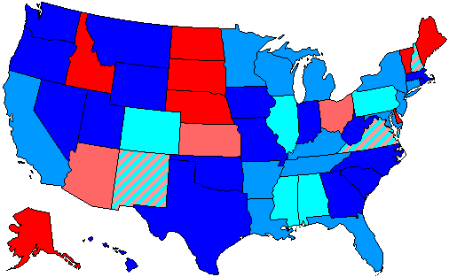 Summary of party control of U.S. house seats in the 94th United States Congress following the 1974 election. Stripes indicate a tie between two or more parties. Legend: 80.1-100% Democratic seat majority 60.1-80% Democratic seat majority 60% or less Democratic seat plurality 60% or less Republican seat plurality 60.1-80% Republican seat majority 80.1-100% Republican seat majority